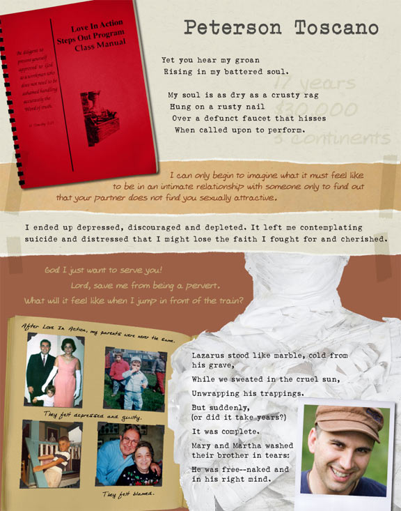 Peterson Toscano (*1965) Beyond Ex-Gay-Collage